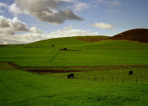 Greenland farming at Yesnaby, The Mainland / Orkney original copyright 1999 Wolfgang Schlick (aka Islandhopper) shot taken in 1999 published before from the authors archive Islandhopper 14:54, 30 July 2006 (UTC)